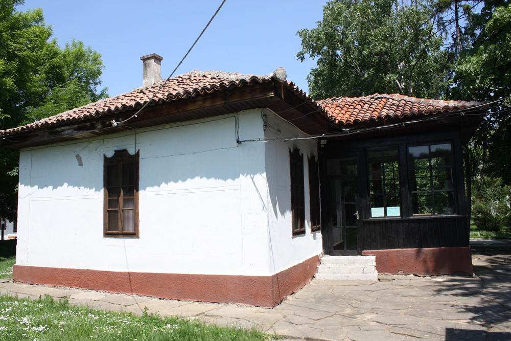 Museum house of Hristo Mihailov - Montana, Bulgaria